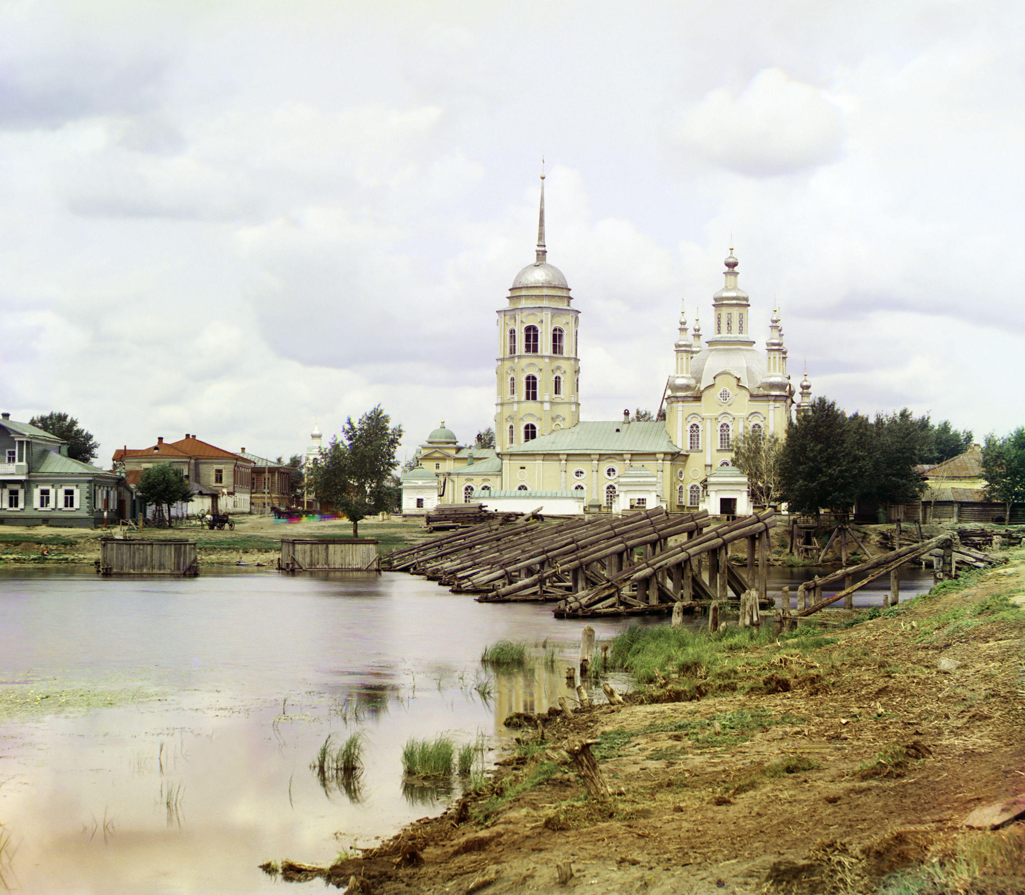 Original Description: Cathedral in the city of Shadrinsk (150 years).